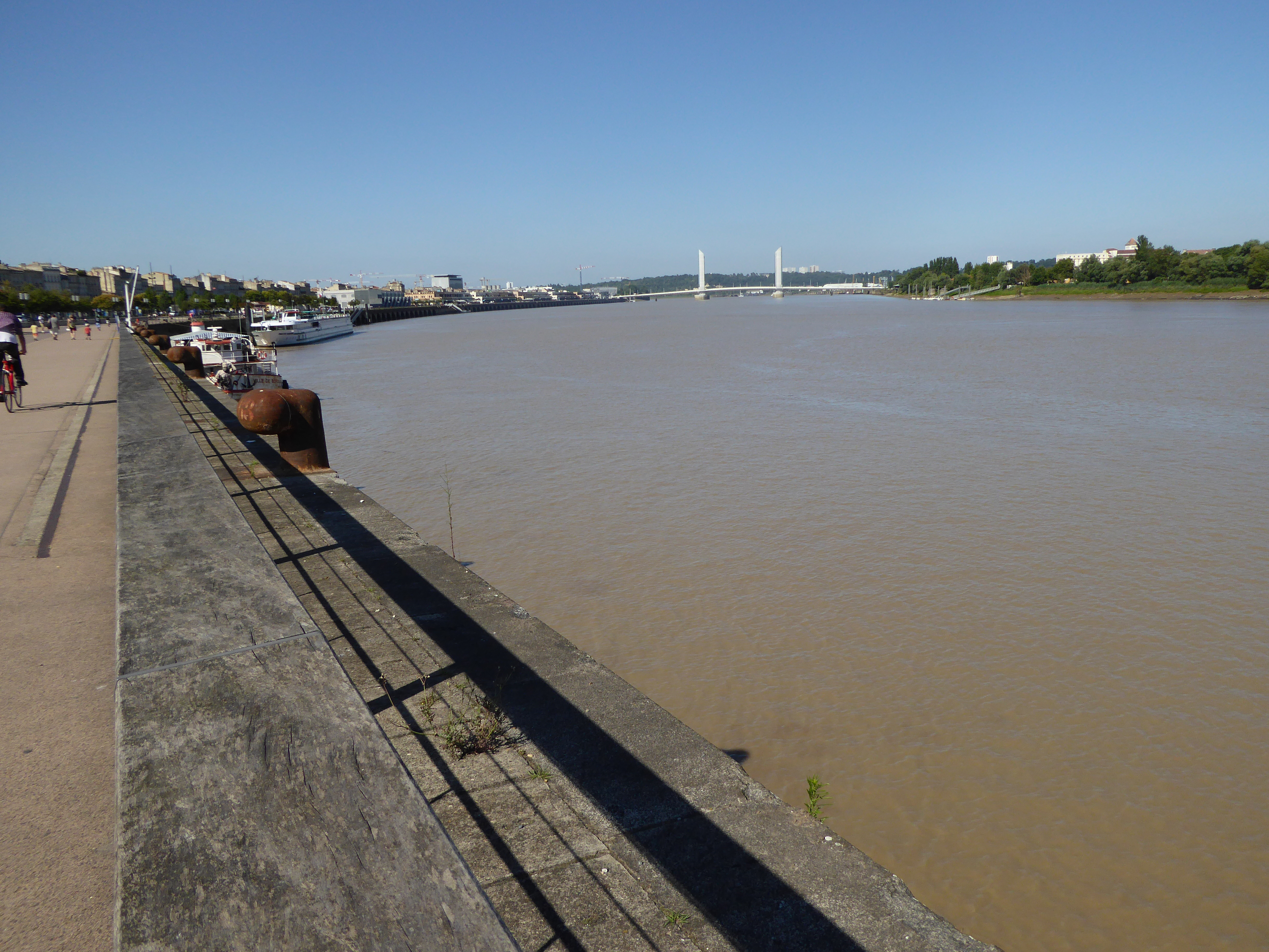 Quai des Chartrons, Bordeaux, France, July 2014